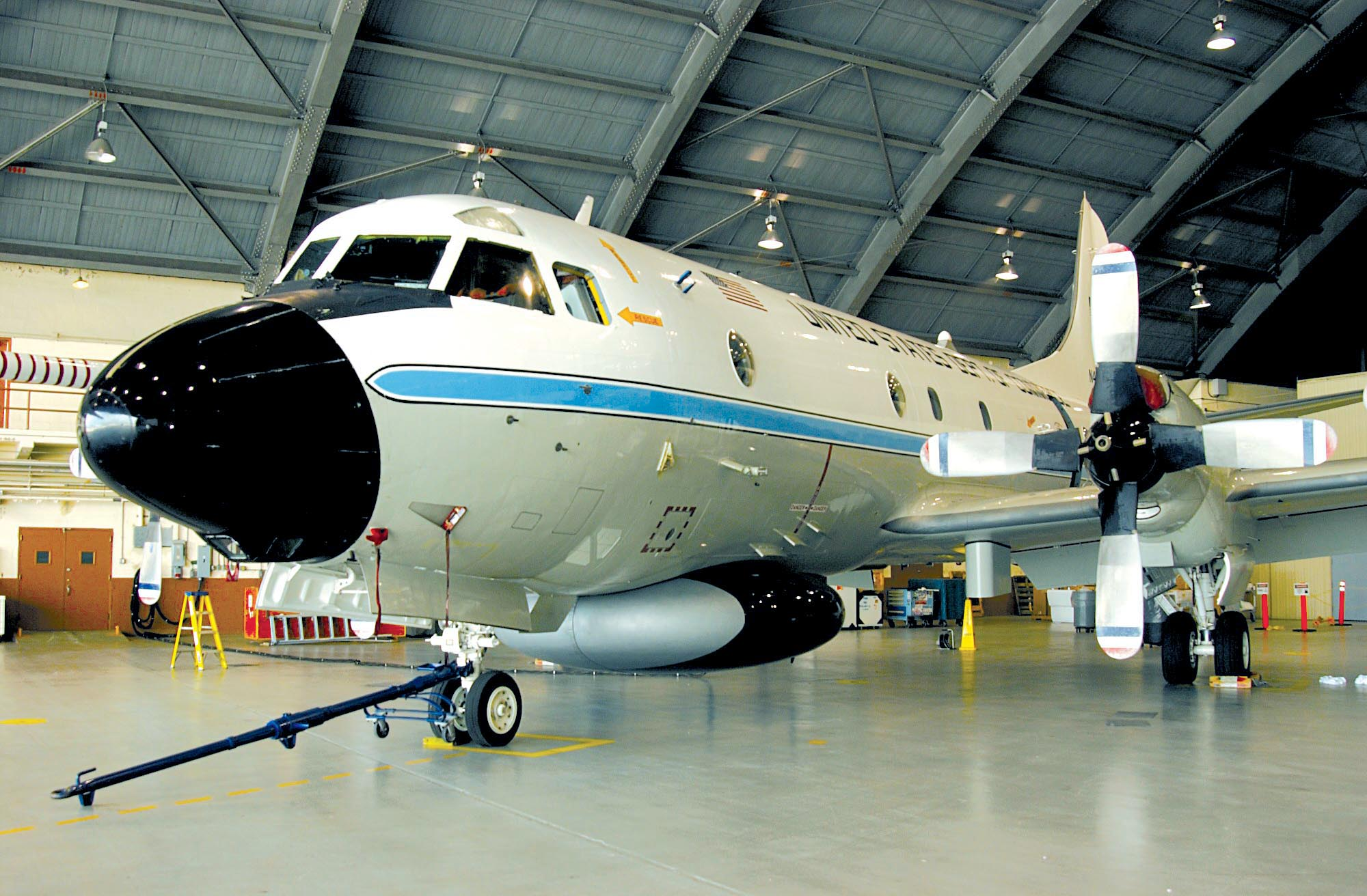 MACDILL AIR FORCE BASE, Fla. -- The National Oceanic Atmospheric Administration's WP-3D aircraft, known affectionately as "Miss Piggy," is one of only two aircraft in the world built specifically to fly directly into the eye of a hurricane.